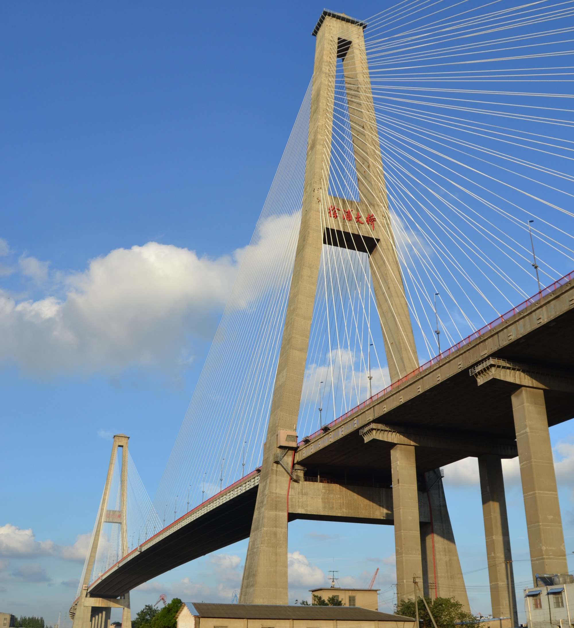 The Xupu Bridge over the Yangtze River in Shanghai